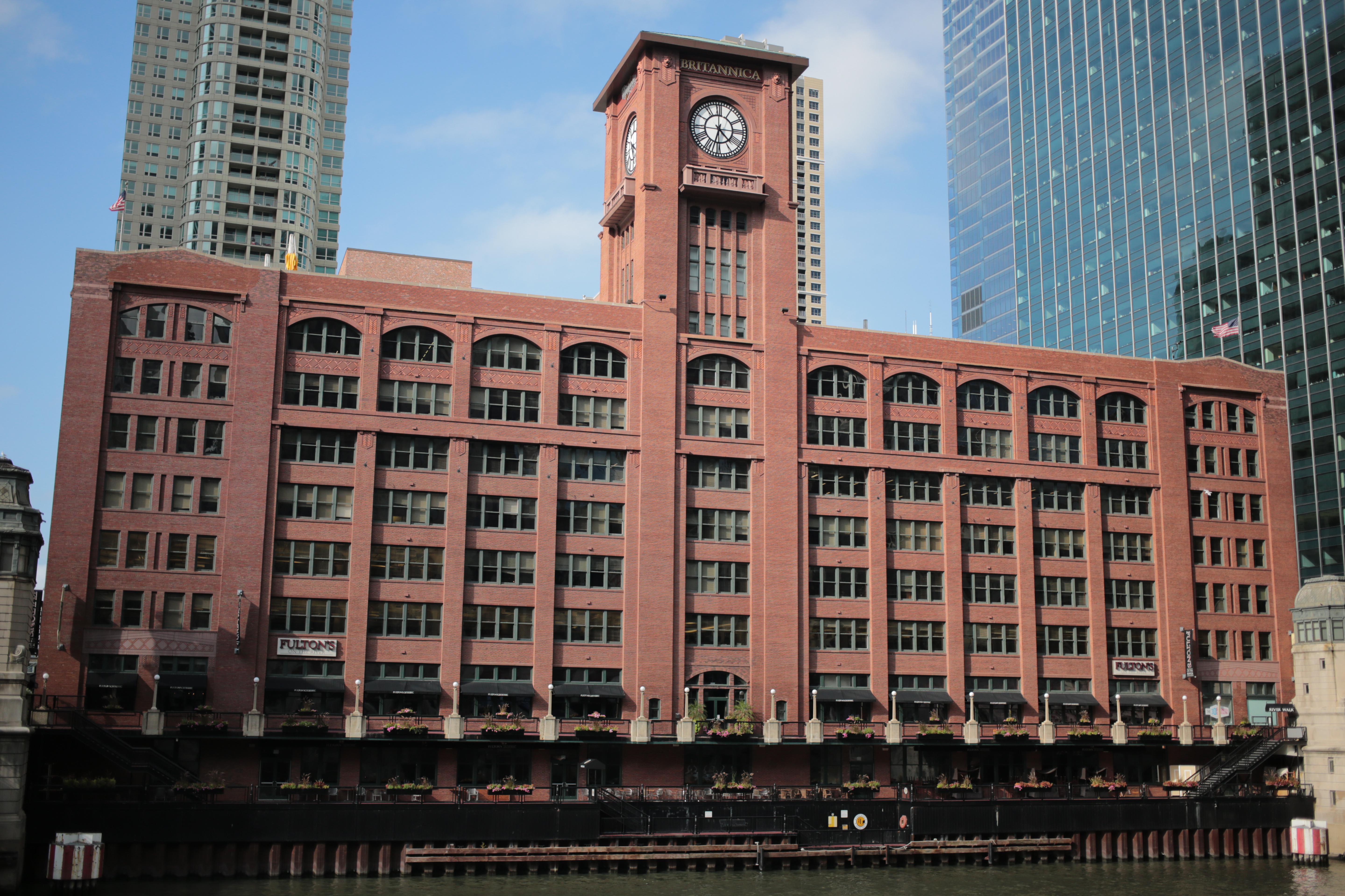 BRITANNICA Photo Walk Chicago September 2, 2013-4870